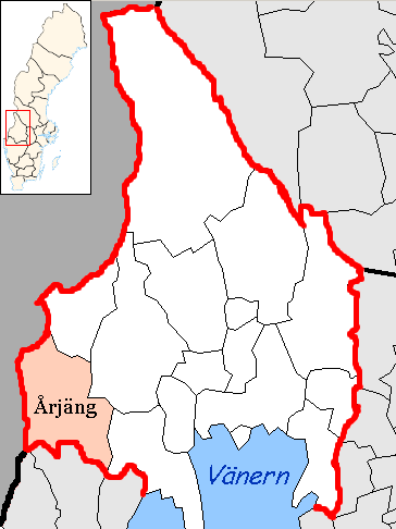 Årjäng Municipality in Värmland County Designd by me, based on Image:Värmland County.png